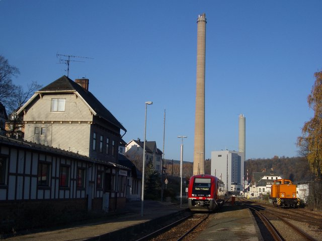 Blankenstein (Saale) Railway Station, October 2005: Beside the ZPR Locomotive, a local transport vehicle awaits the return trip to Saalfeld via Lobenstein and Wurzbach. In the Background: Impressive buildings of the paper mill "Zellstoff- und Papierfabrik Rosenthal (ZPR).